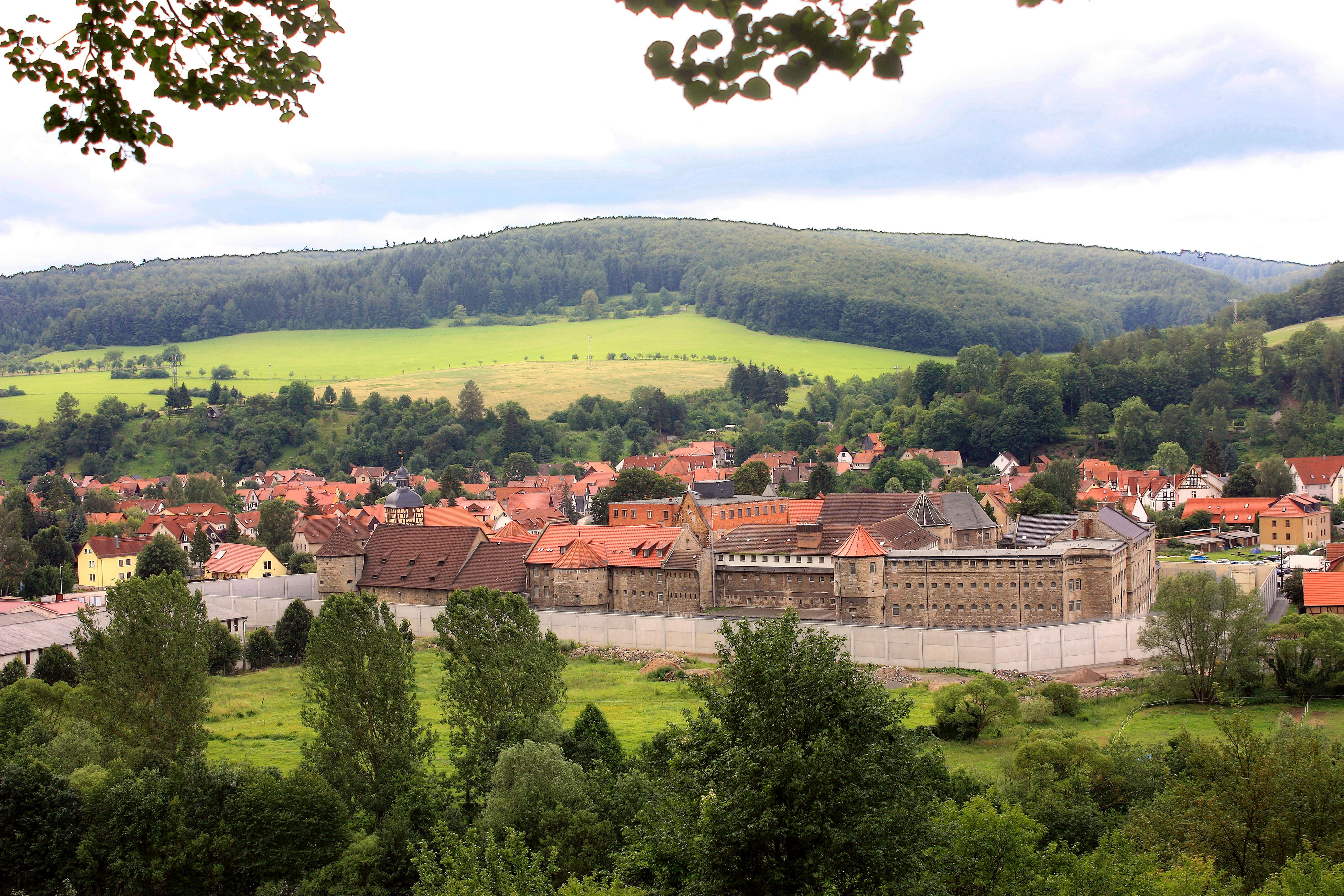 Village Untermassfeld with the moated castle